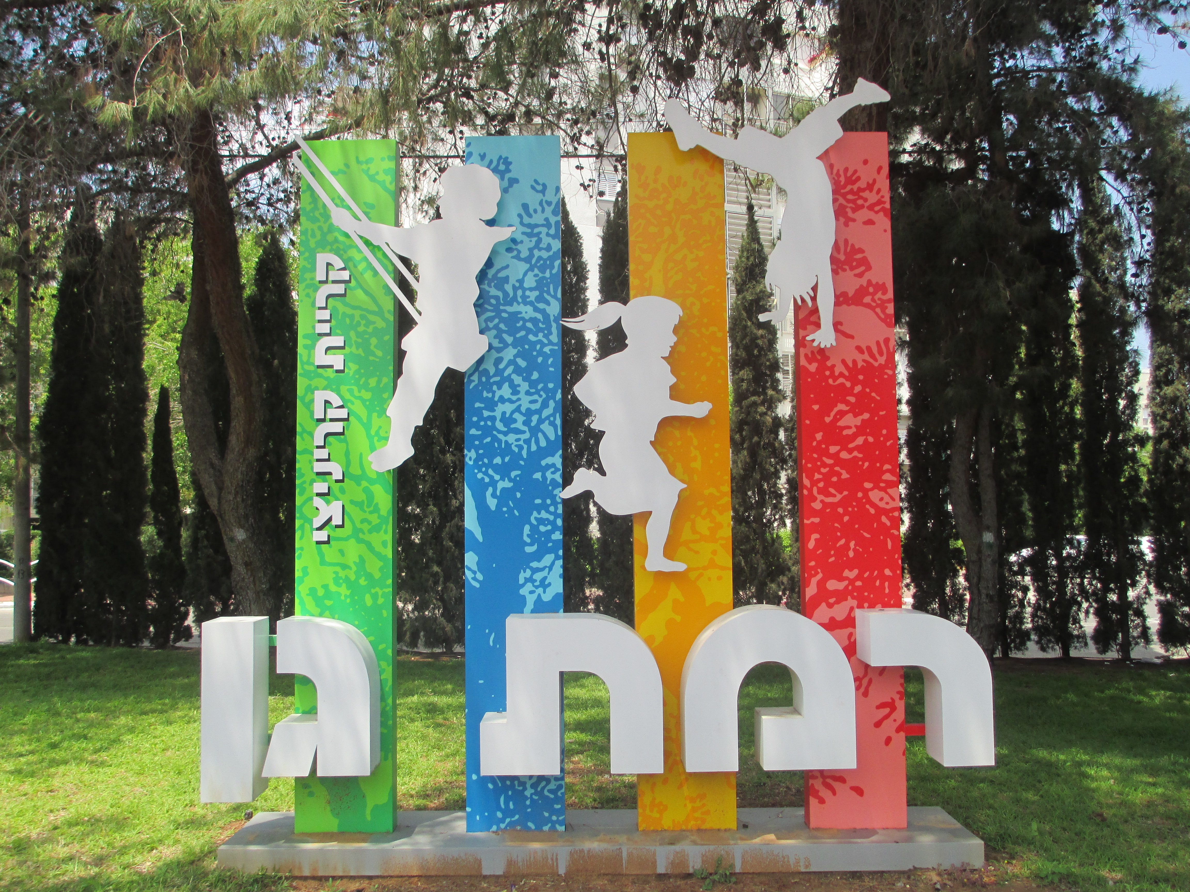 Entrance to Kiryat Krinitzi in Ramat Gan